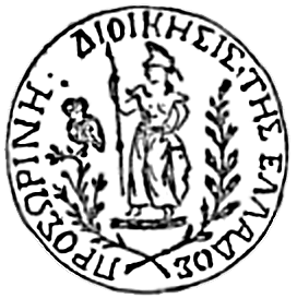 Summary Seal of the Greek Provisional Government during the Greek War of Independence Historic Arms (1822-1828), not used by state institutions.